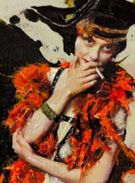 Coco nr. 47, by Lita Cabellut